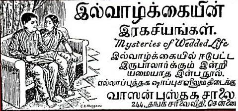 A front cover/advertisement of a Tamil Book printed in 1920s. The title reads "Mysteries of Wedded Life". The subtitle reads "A must read for people of both the sexes who want to get married". Issued by Vasan Book House, 244 Thanga Salai Street, Madras. Screen shot taken from the front page of Contraception, colonialism and commerce: birth control in South India, 1920-1940 By Sarah Hodges